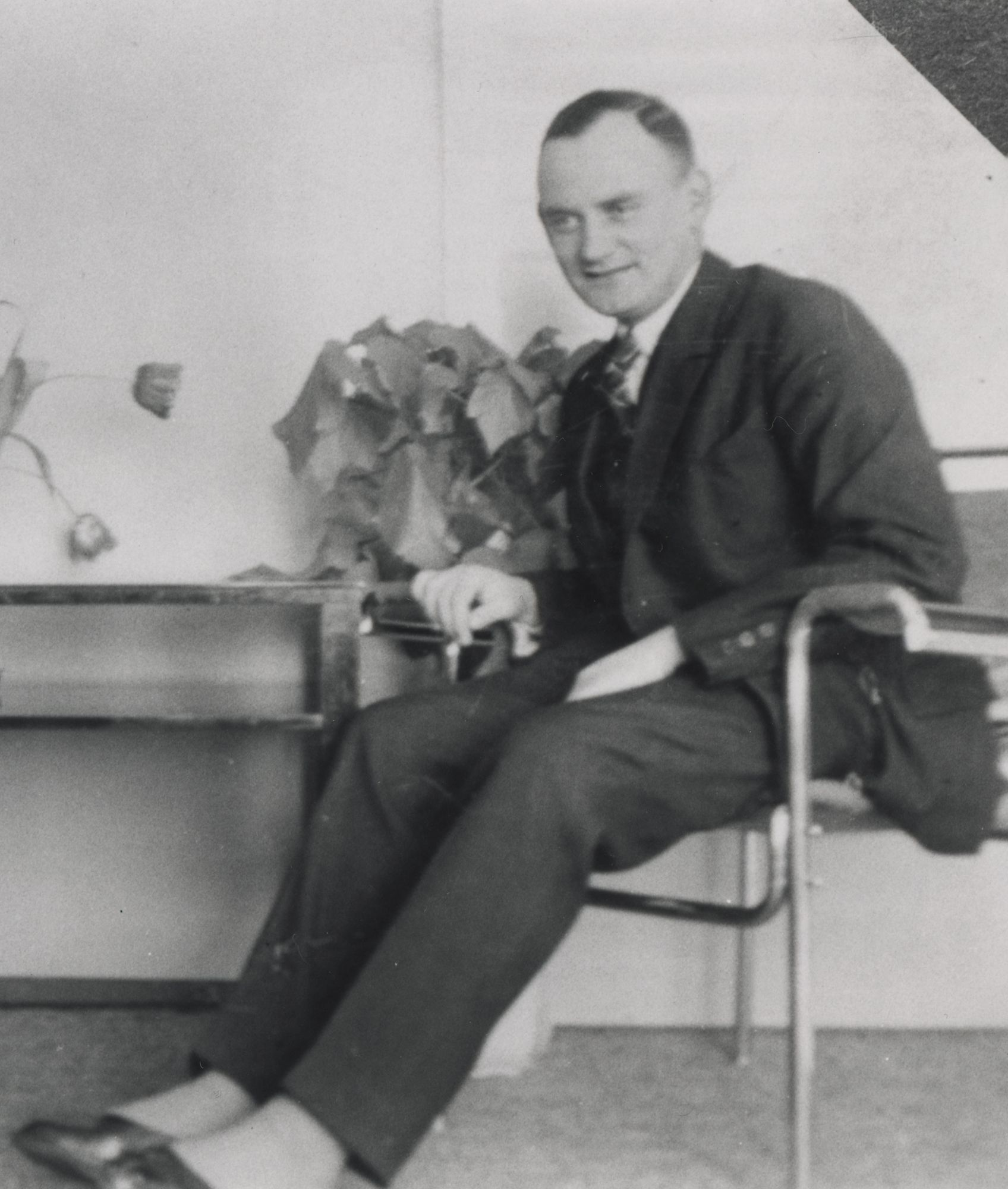 Photograph of Carl Fieger sitting in a Wassily chair. Circa 1935.